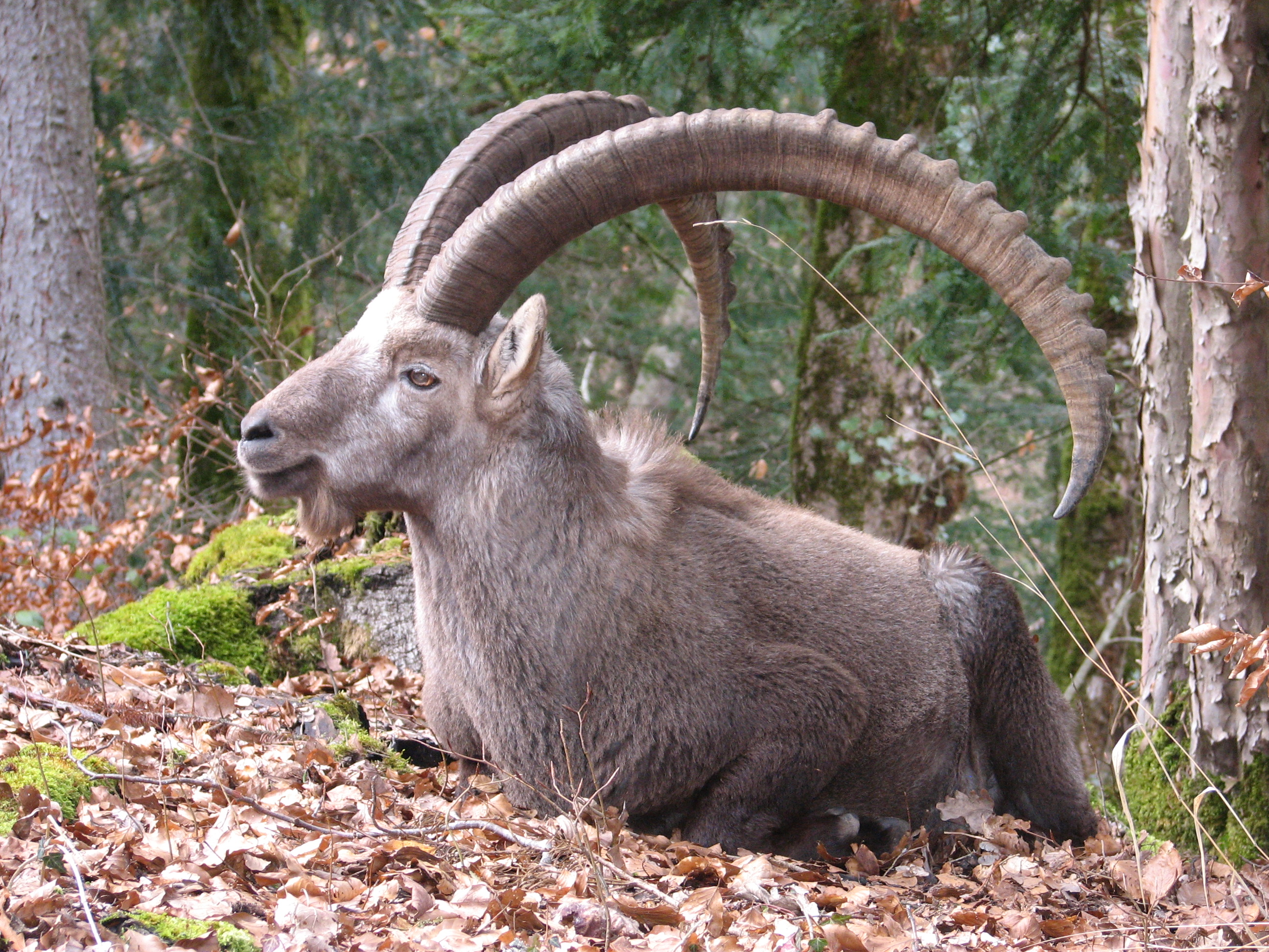 Alpine Ibex, where?